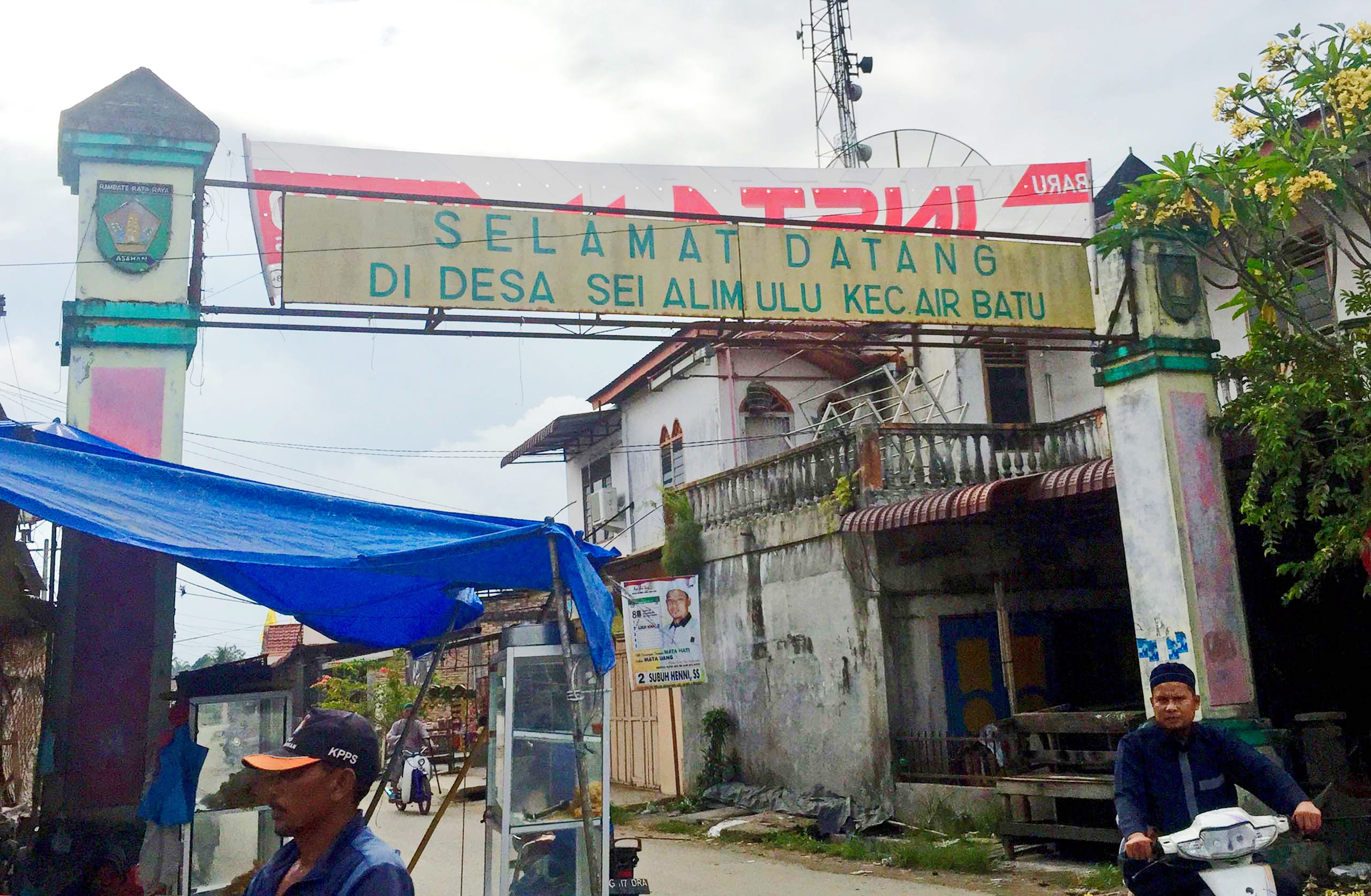 welcome gate to Sei Alim Ulu, Air Batu, Asahan